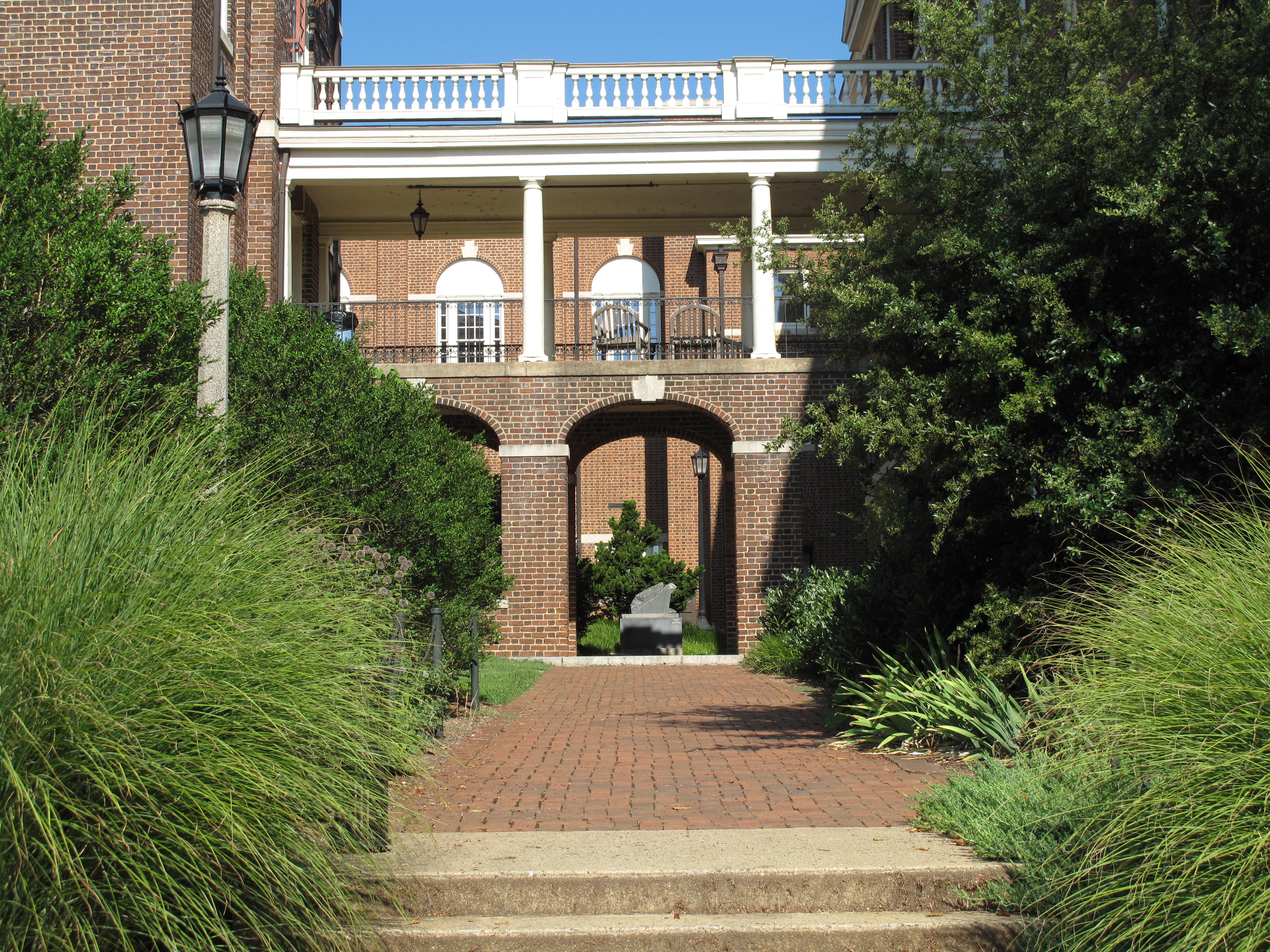 Sweet Briar College